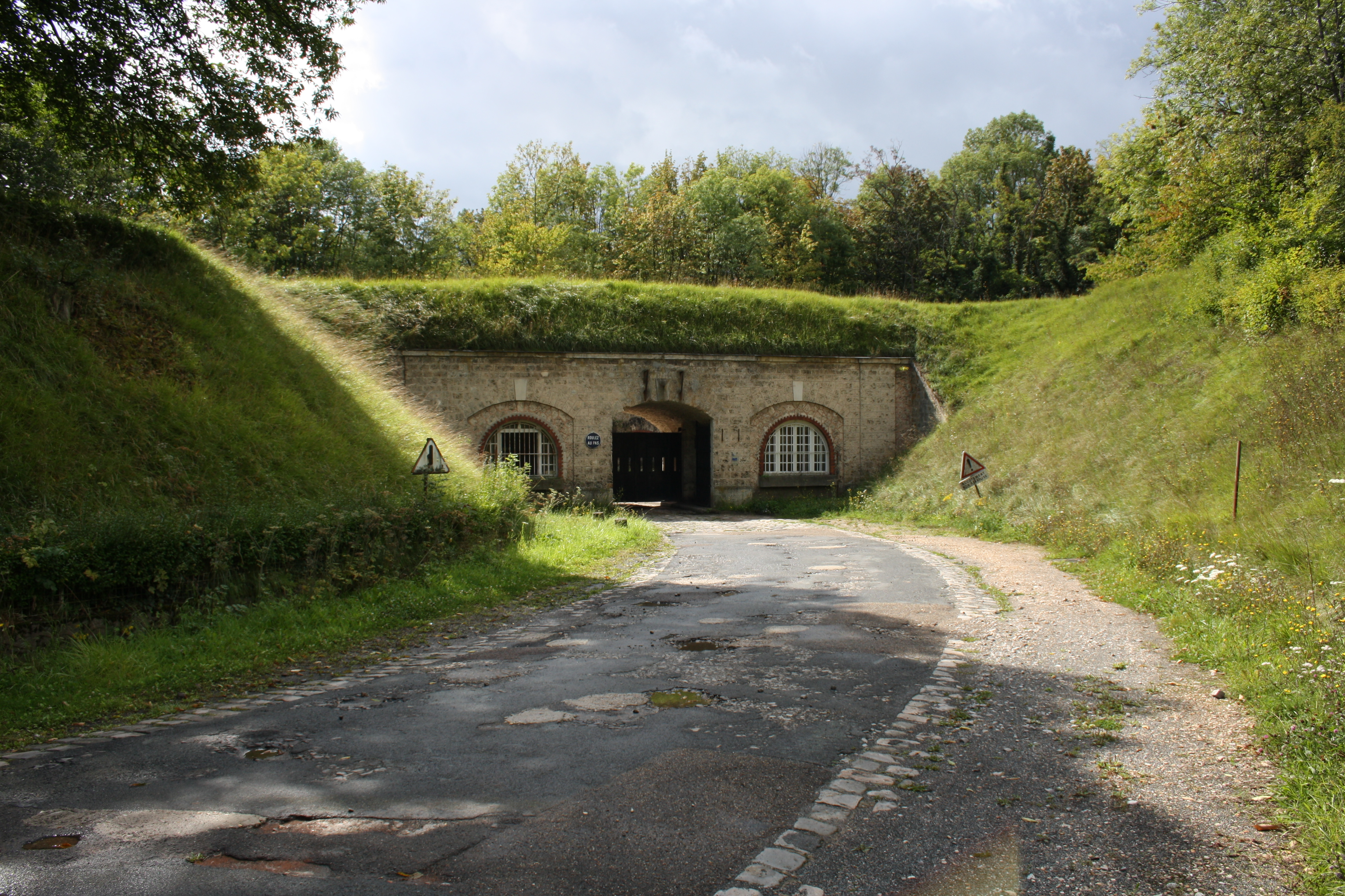 The Fort de Saint-Cyr in Montigny-le-Bretonneux, France.